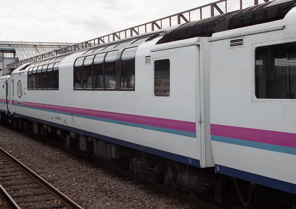 JR Hokkaido KiHa 80 series "Furano Express" DMU Kiha 80 501